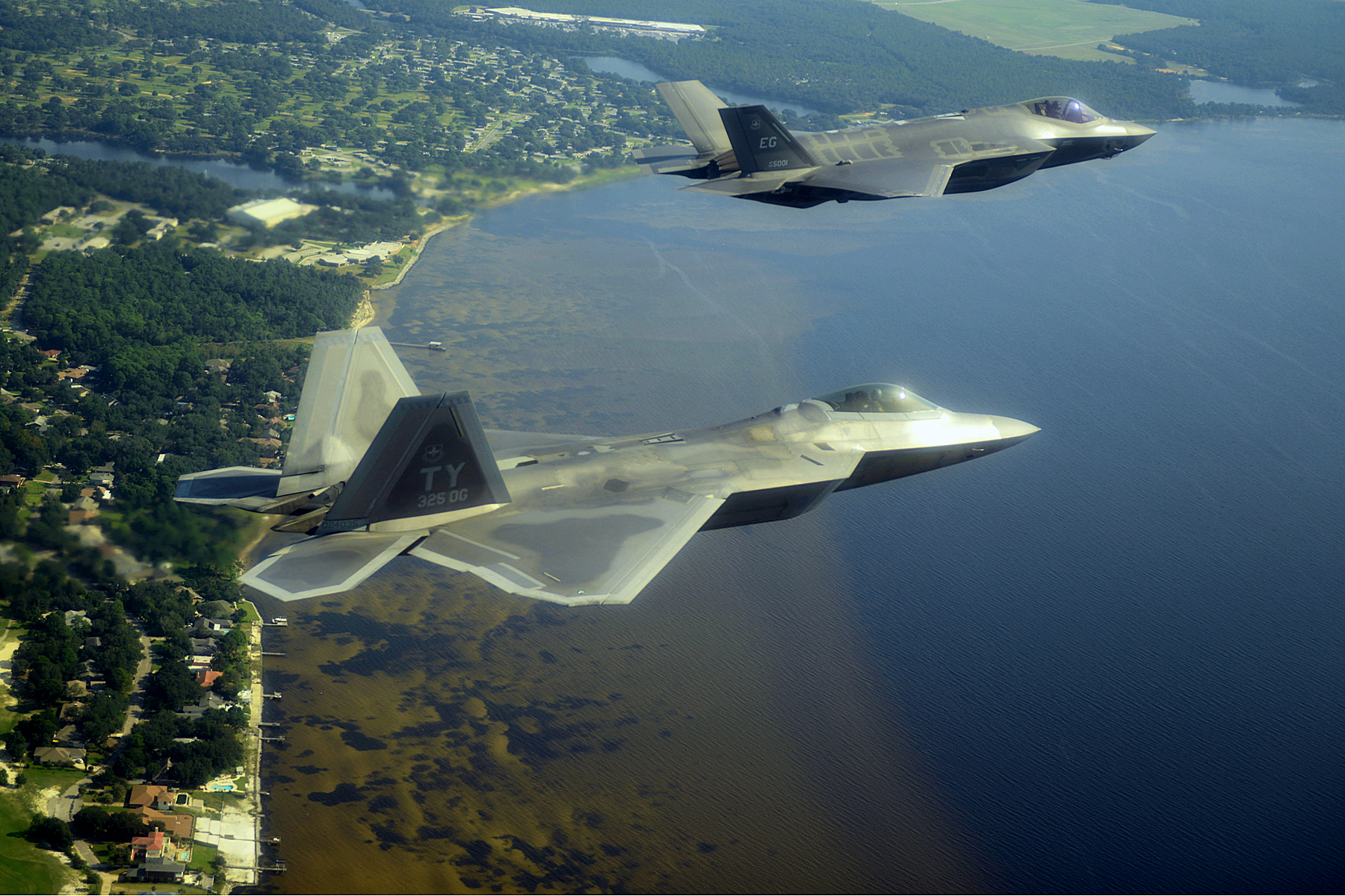 An F-22A Raptor, foreground, from the 43rd Fighter Squadron at Tyndall Air Force Base, Fla., and an F-35A Lightning II from the 33rd Fighter Wing at Eglin Air Force Base, Fla., soar over the Emerald Coast Sept. 19, 2012. This was the first time the two fifth-generation fighters have flown together for the Air Force.